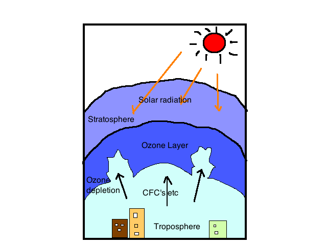 A steady decline of about four percent in the total amount of ozone in Earth's stratosphere (the ozone layer), and a much larger springtime decrease in stratospheric ozone around Earth's polar regions.